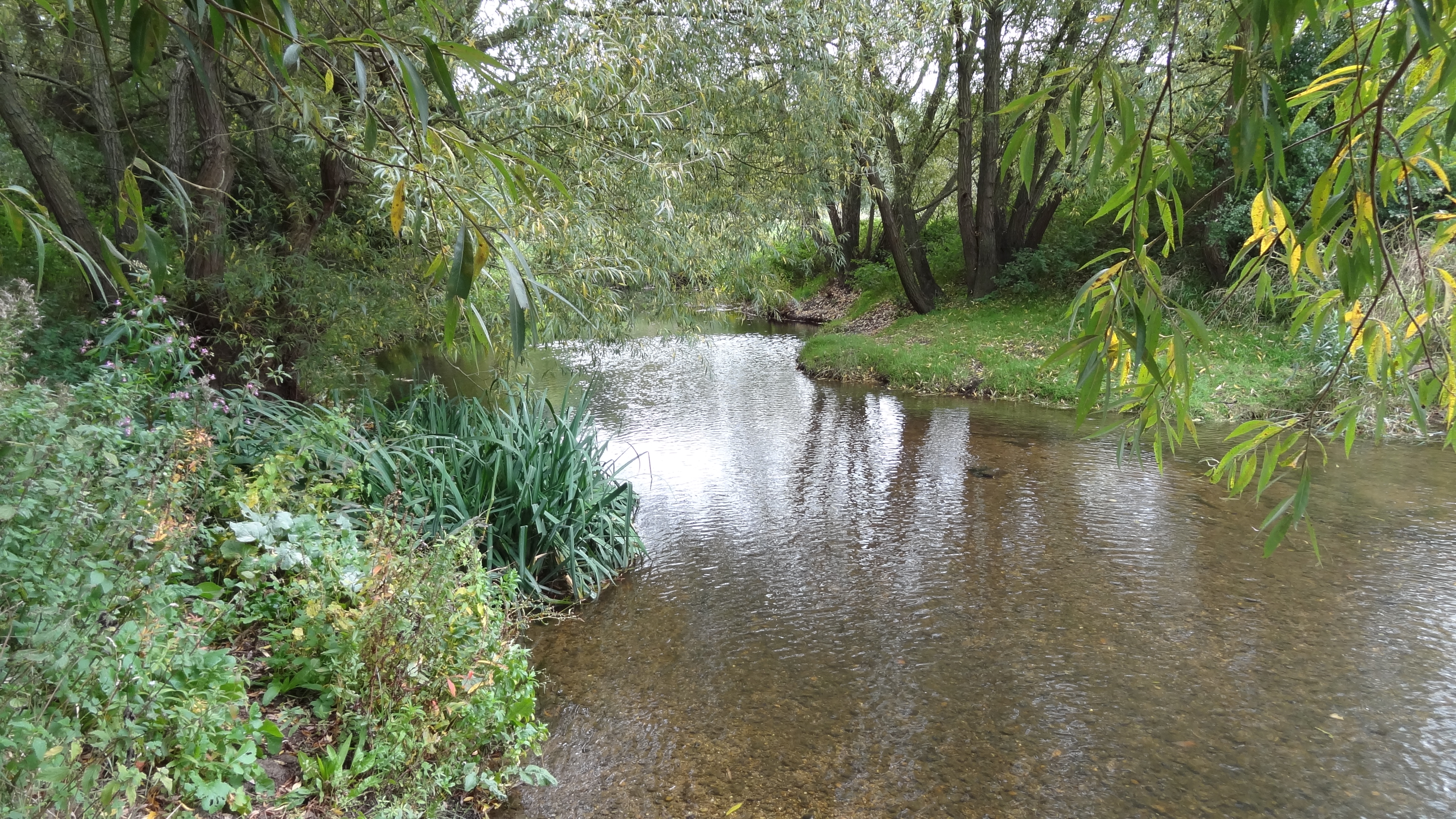 River Roding in Roding Valley Meadows, Chigwell, Epping Forest district, Essex